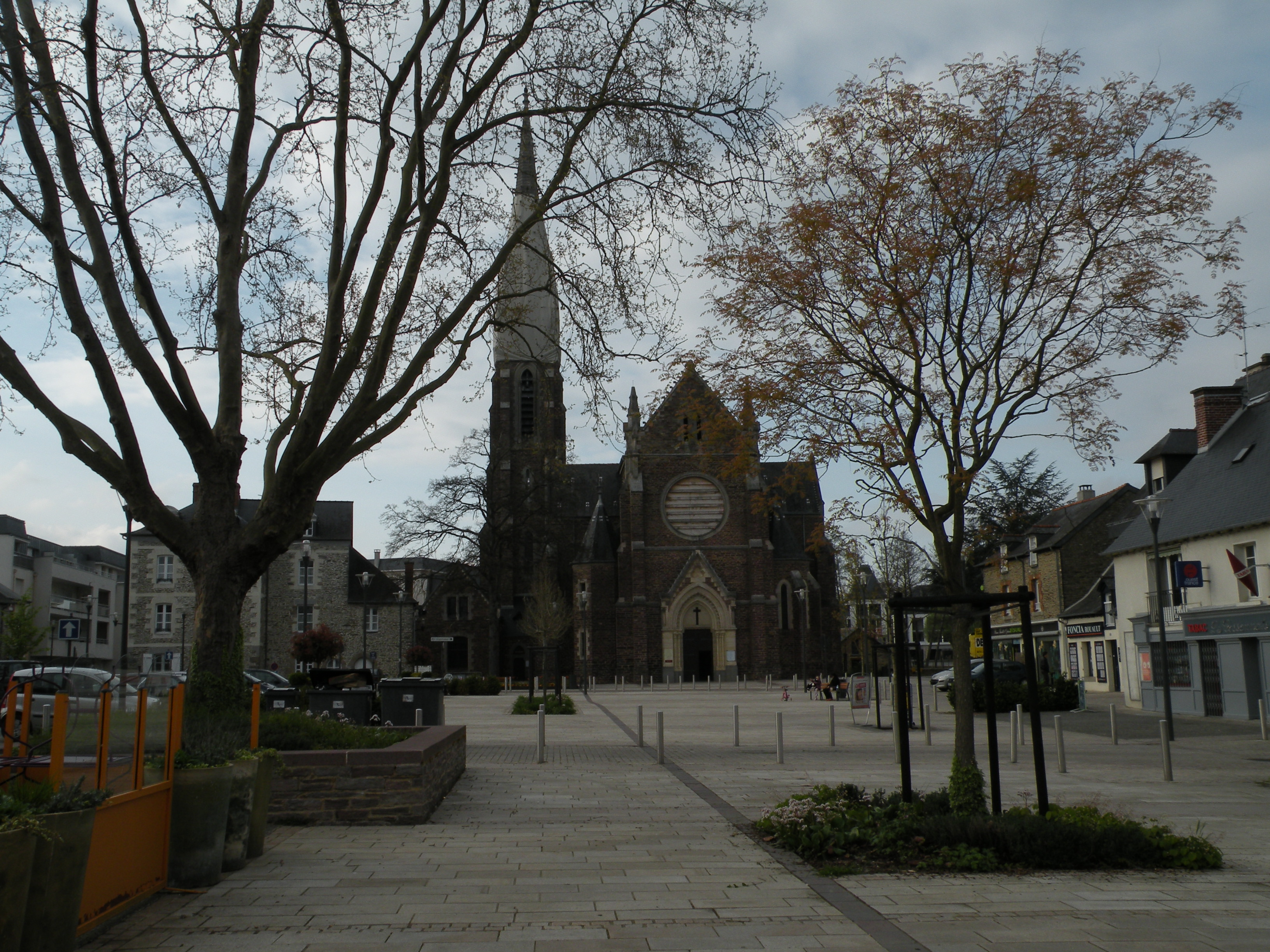 Church plaza of Cesson-Sévigné.